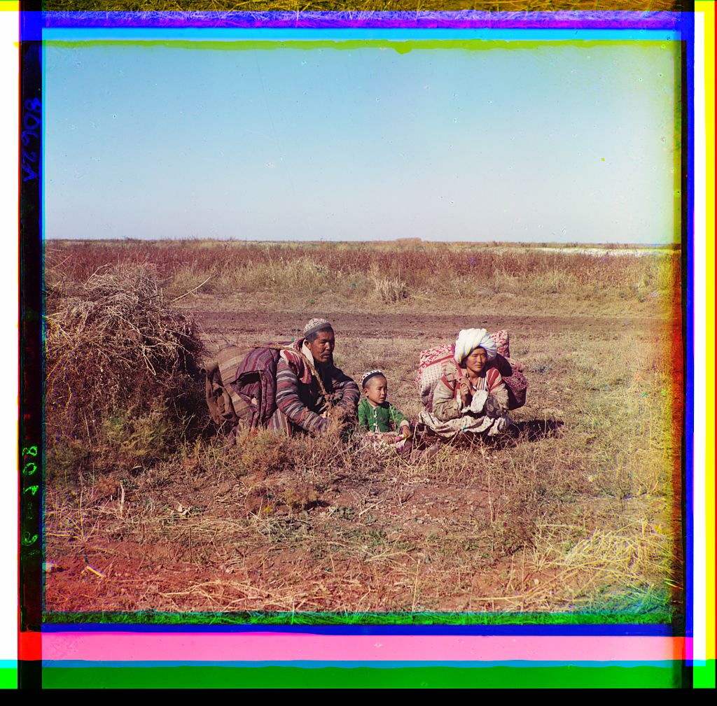 To Make Your Own Color Photo from the Original Glass Plate Negative, use this file: Prokudin-Gorskiĭ, Sergeĭ Mikhaĭlovic,, 1863-1944, photographer. Nomadic Kirghiz. Golodnaia Steppe [between 1905 and 1915] 1 negative (3 frames) : glass, b&w, three-color separation ; 24 x 9 cm. Notes: Family of three, kneeling in a field. Forms part of: Sergei Mikhailovich Prokudin-Gorskii Collection (Library of Congress). Subjects: Kyrgyz. Nomads. Meadows. Clothing & dress. Families. Kazakhstan--Betpak-Dala. Asia, Central. Format: Ethnographic photographs. Glass negatives. Color separation negatives. Group portraits. Portrait photographs. For additional information on commercial use, see "Prokudin-Gorskii...," Repository: Library of Congress, Prints and Photographs Division, Washington, D.C. 20540 USA Higher resolution image is available (Persistent URL): Call Number: LC-P87- 8062A